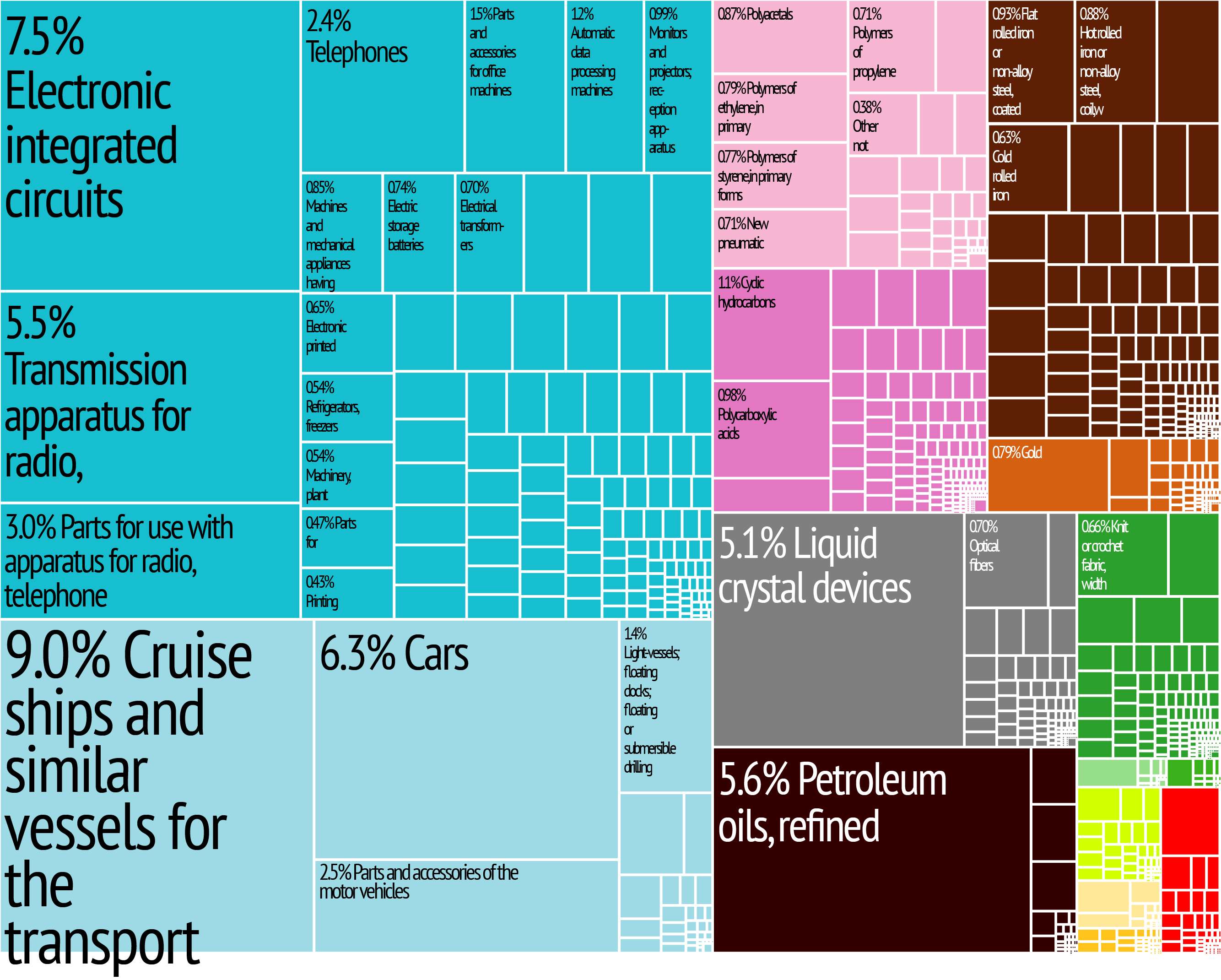 Korea Export Treemap from MIT Harvard Economic Complexity Observatory